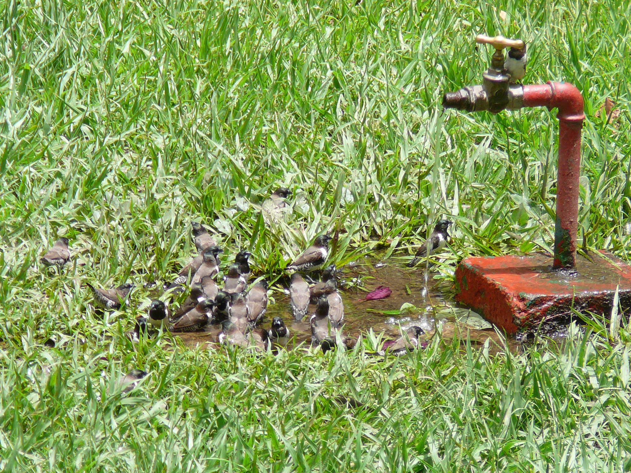 Bronze Mannikin